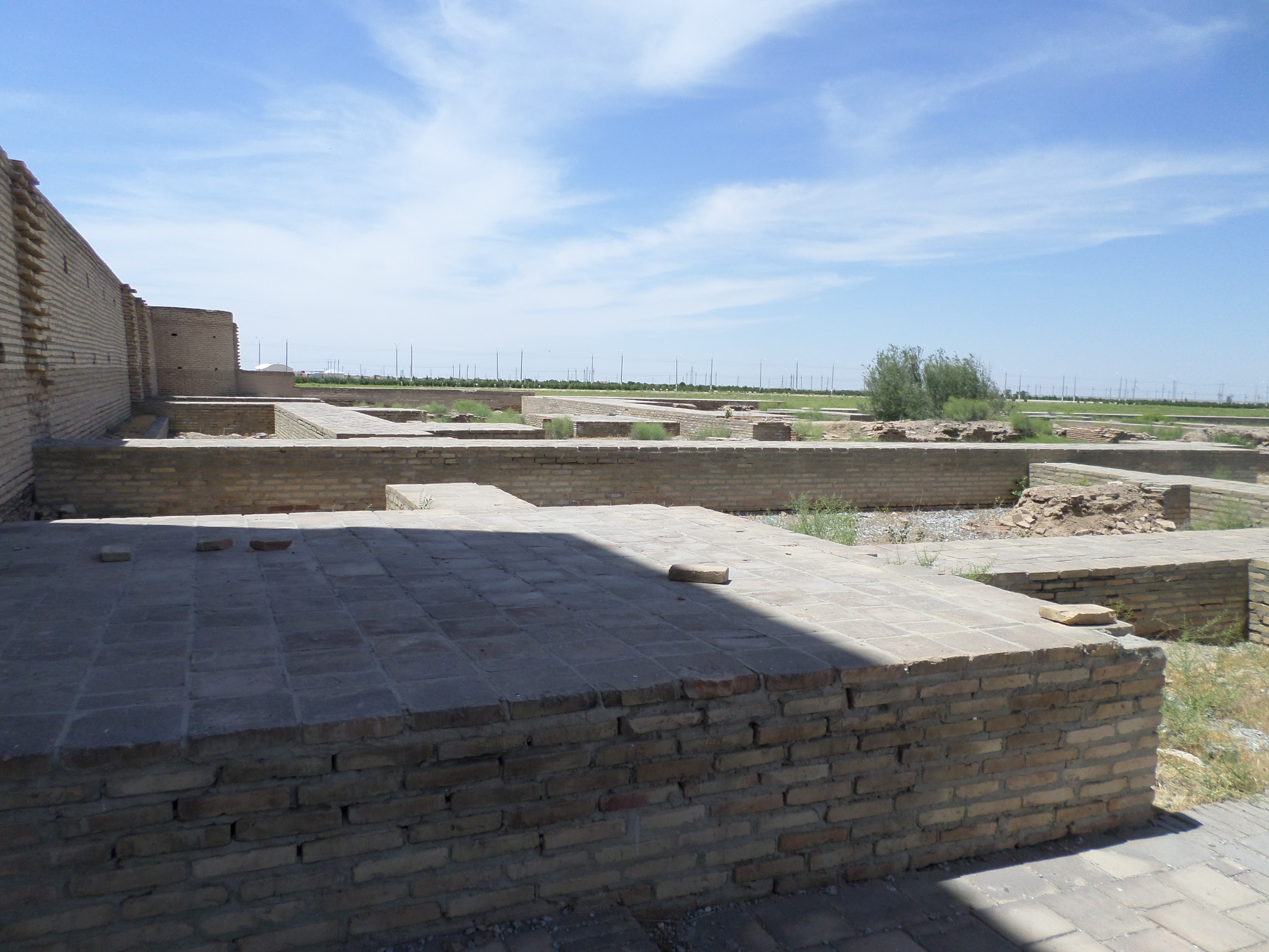 Rabat Malik